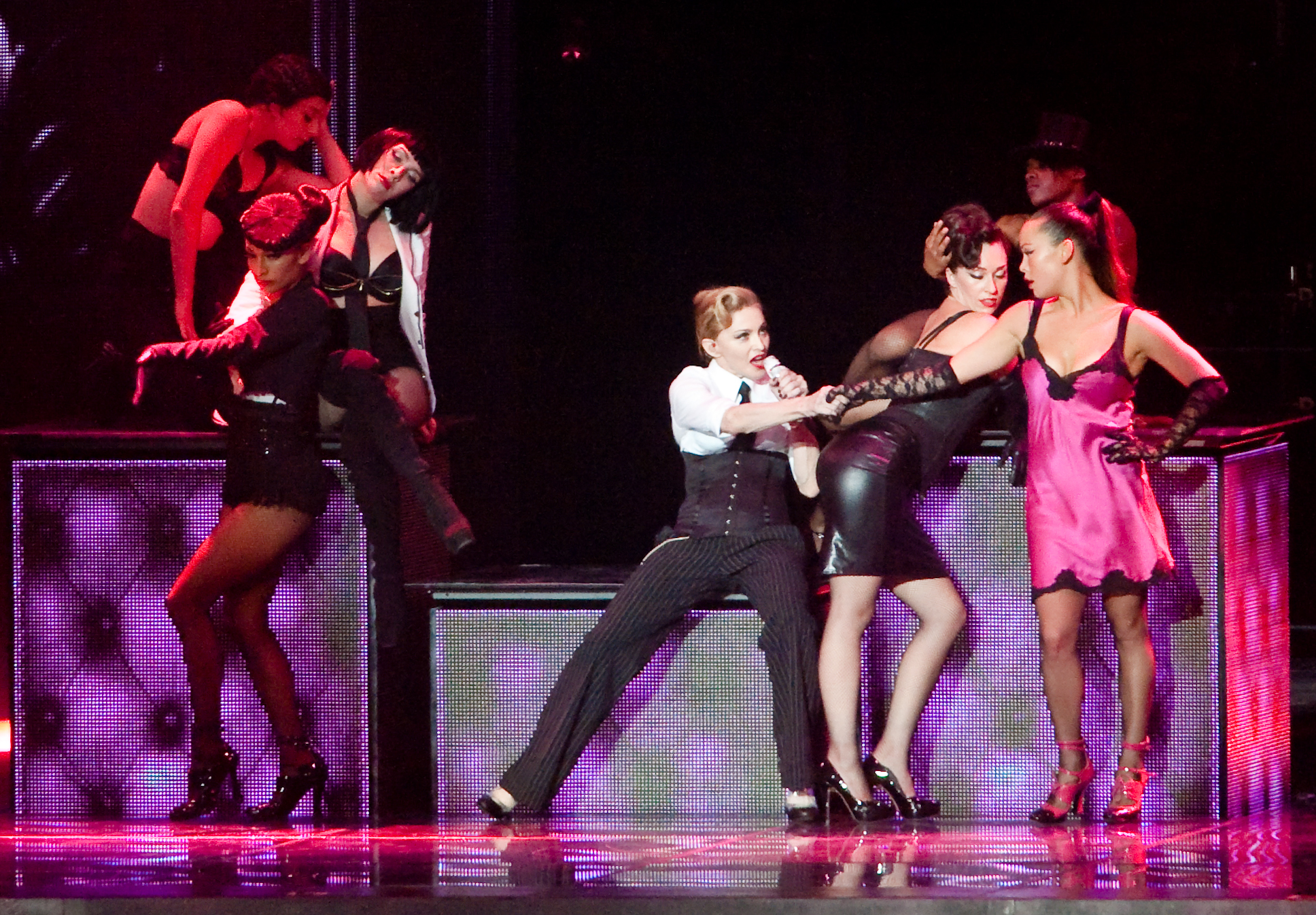 Madonna MDNA Concert Live _D7C31602